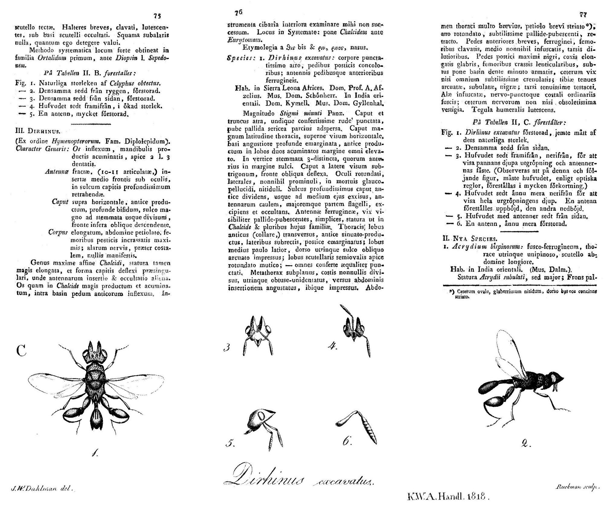 Dalman 1818 Description of Dirhinus. Dalman, J.W. 1818, Några nya Genera och Species af Insecter. Kungliga Svenska Vetenskapsakademiens Handlingar 39:76